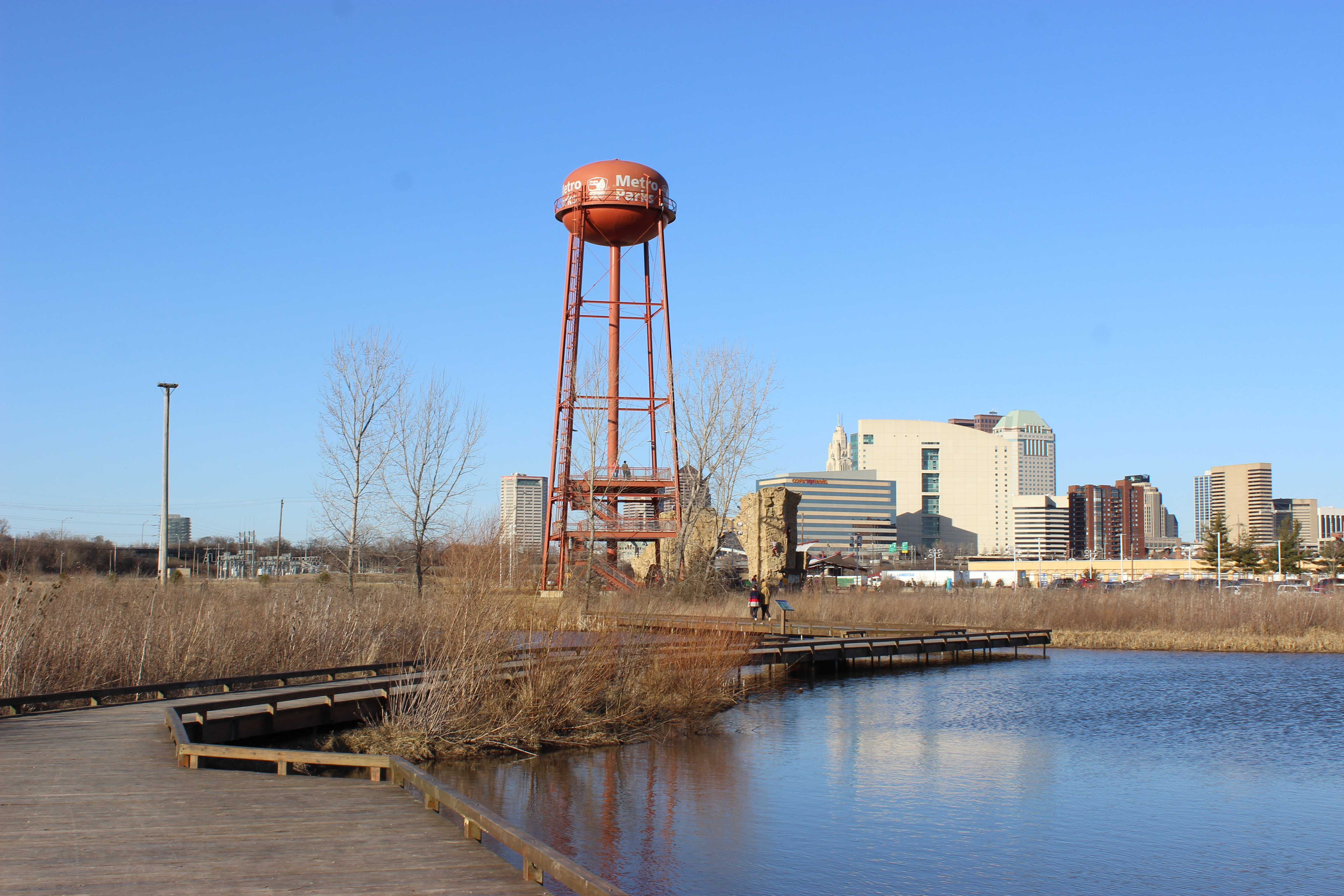 The Scioto Audubon park in Columbus, Ohio, part of the Metro Parks.